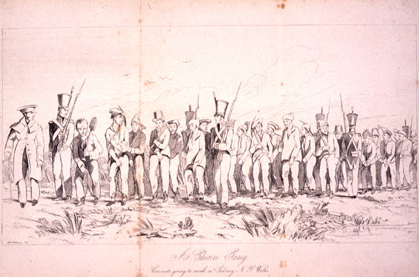 Chain gang : convicts going to work nr. Sidney N.S. Wales Subjects: Convicts - New South Wales - History Convict labor - New South Wales - History Chain gangs - New South Wales - History